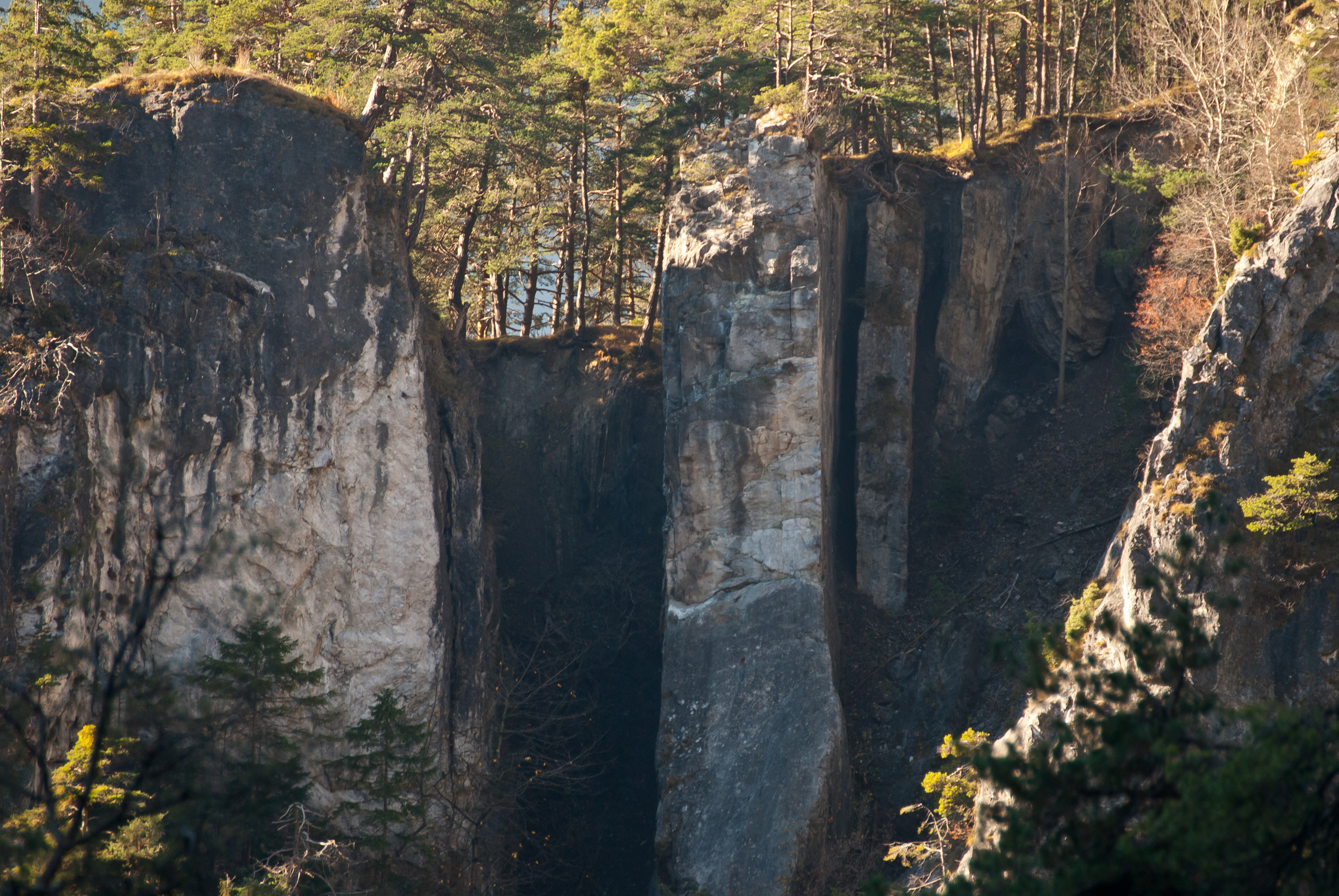 Raibl beds in the Ehnbachklamm near Zirl